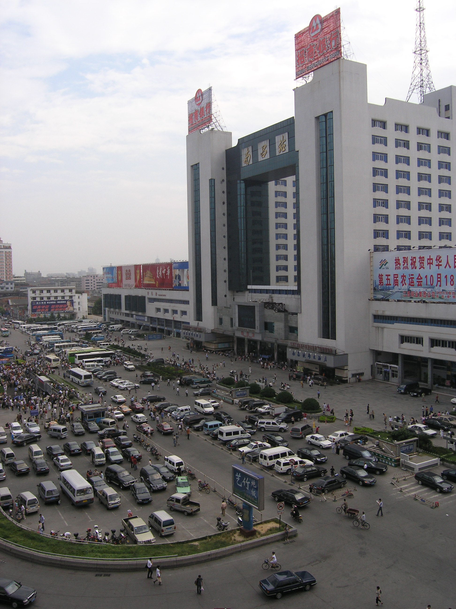 Description: Central terminal in Nanchang, China Source: Photograph by myself Date: August 2004 Photographer: m1la